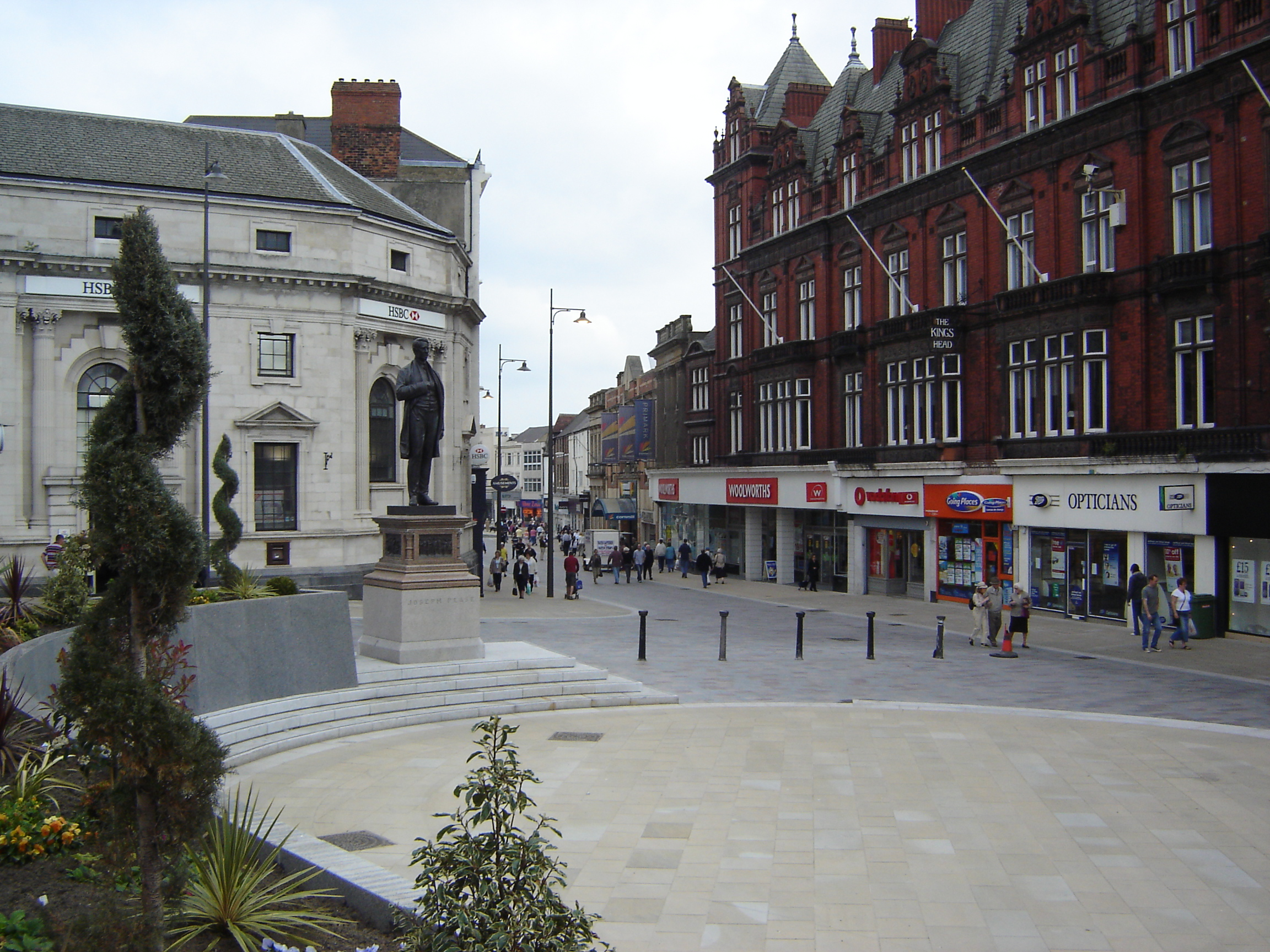 View of Darlington showing part of the "Pedestrian Heart" scheme to improve the town centre, The Kings Head Hotel, statue of Joseph Pease